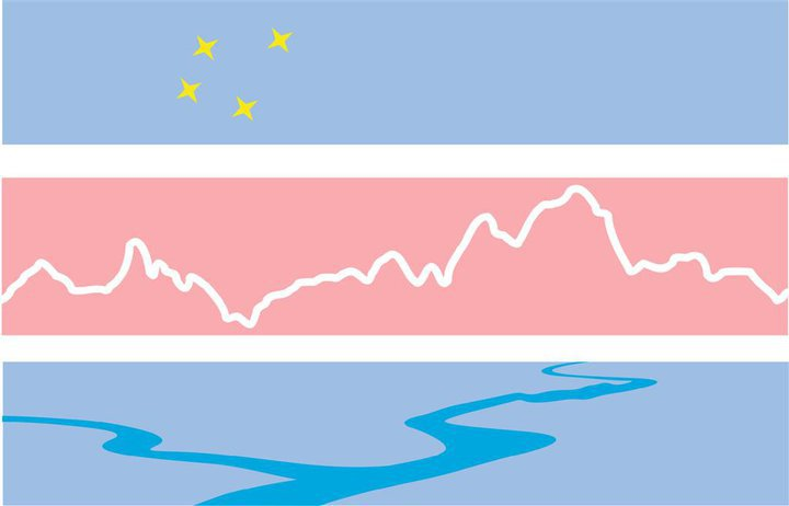 Flag of El Chaltén (Santa Cruz, Argentina)